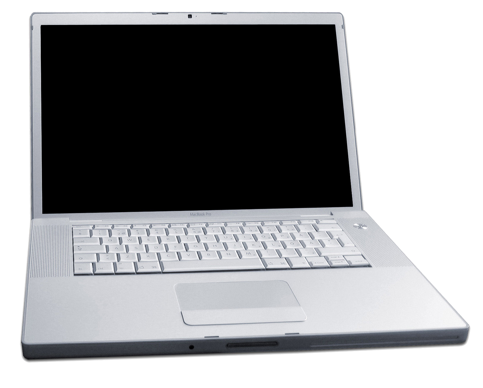 An Apple MacBook Pro. Derived from this photograph from flickr, taken by Jarkko Laine (supervillain) and released as CC-BY-2.0.